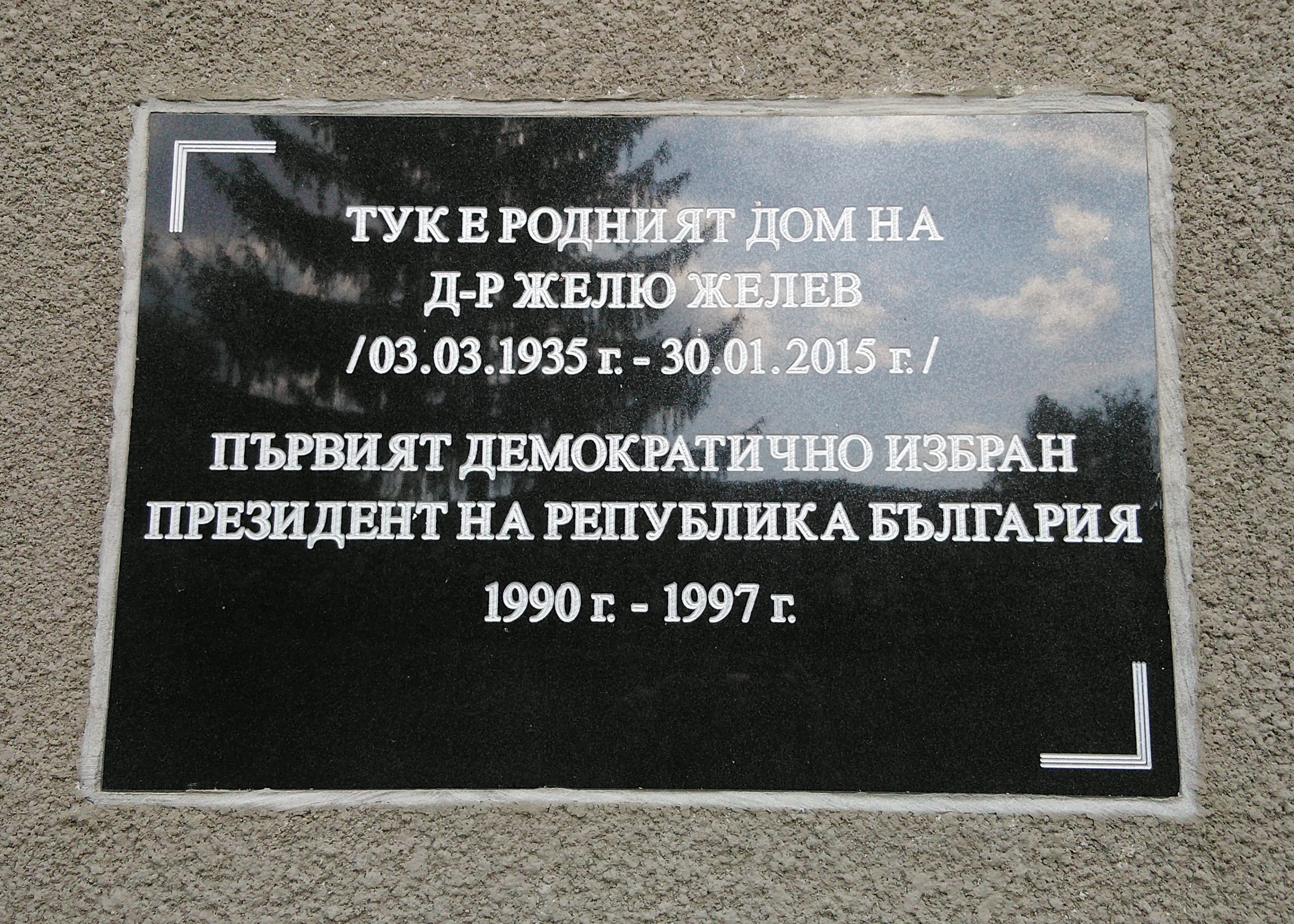 Veselinovo (Shumen Province): memorial plaque on the native home of the President Zhelyu Zhelev